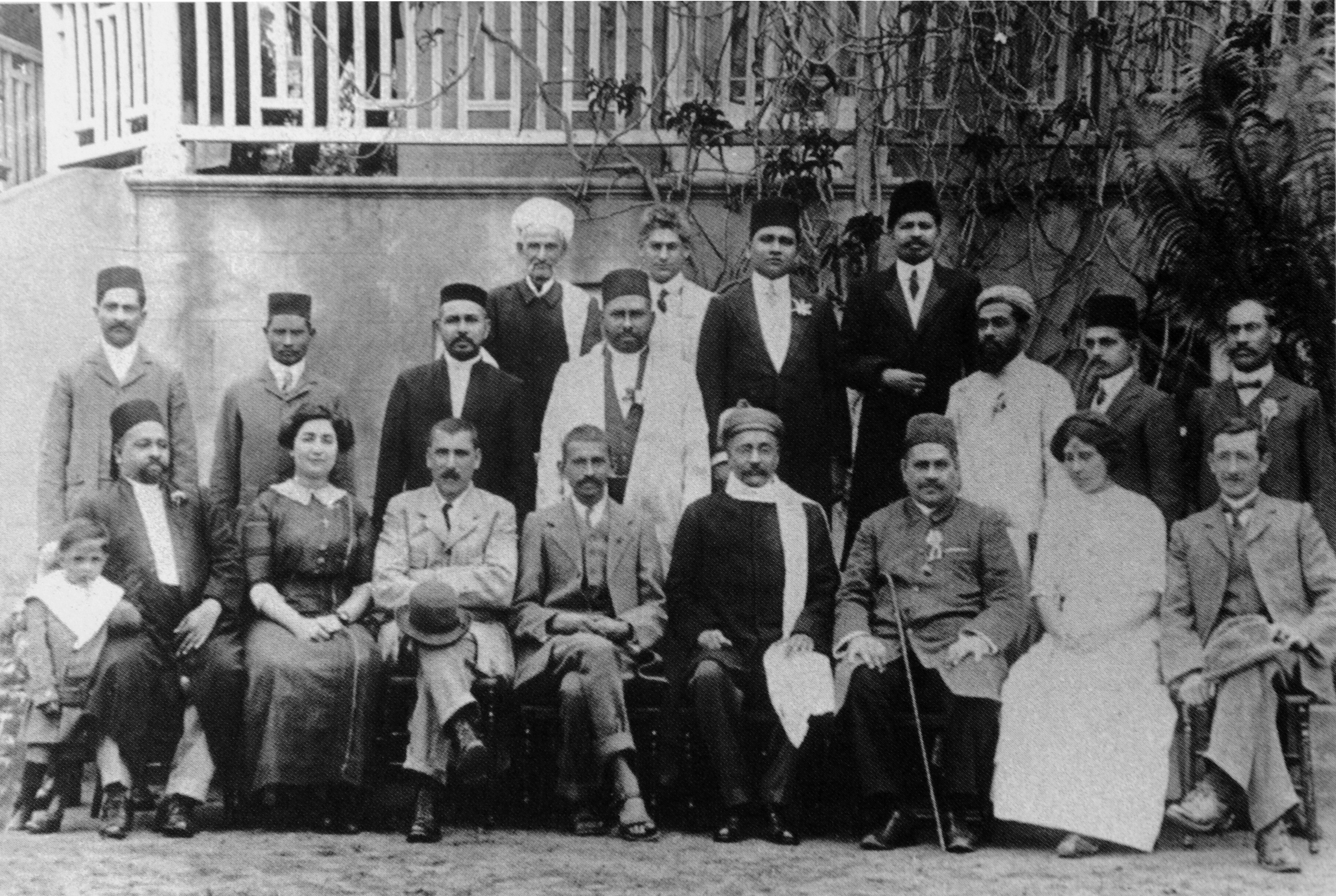 Gandhi during the visit of Indian political leader Gopal Krishna Gokhale to South Africa, Durban, 1912. Below row, center, from left: Dr. Hermann Kallenbach, Gandhi, Gokhale, Parsee Rustomjee.